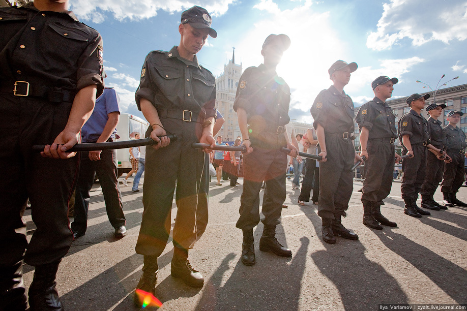 Protest action in defense of Article 31 (Freedom of assembly) of the Russian Constitution. Moscow, July 31, 2009